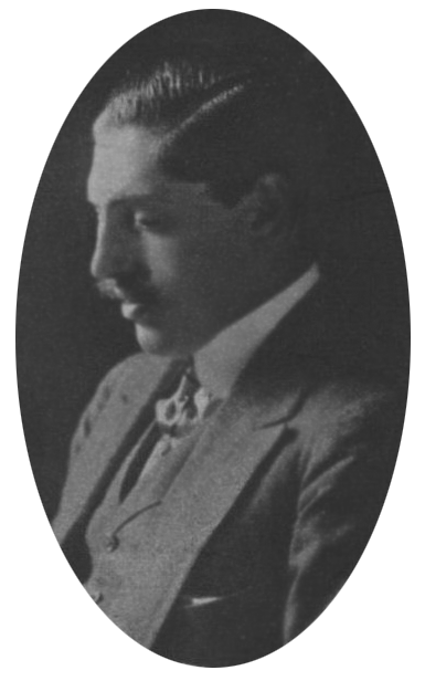 Lord Ninian Crichton-Stuart (1883-1915) in a photograph published following his death in the First World War.